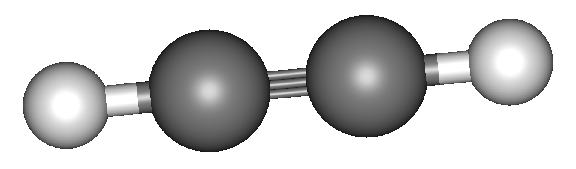 Ball-and-stick model of acetylene molecule.